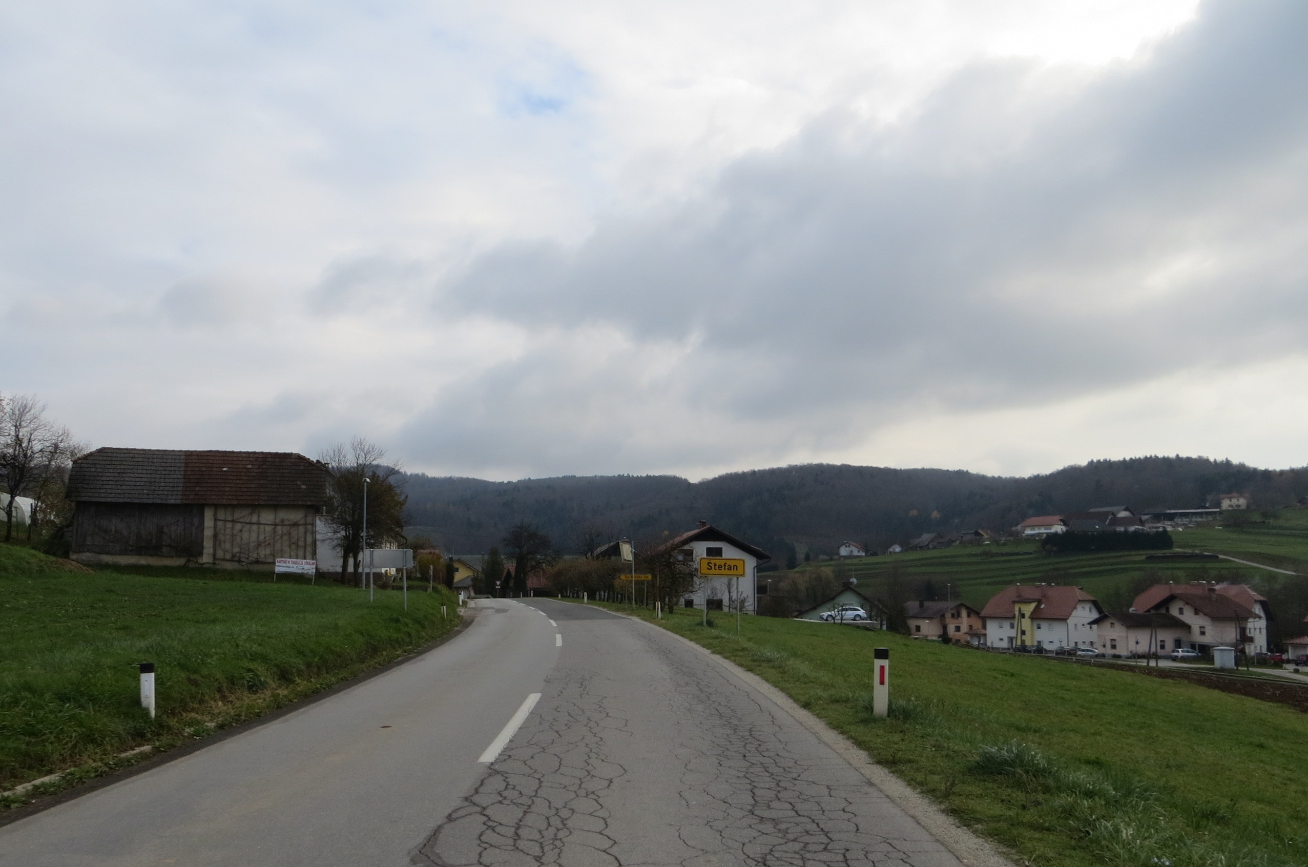 Štefan pri Trebnjem, Municipality of Trebnje, Slovenia